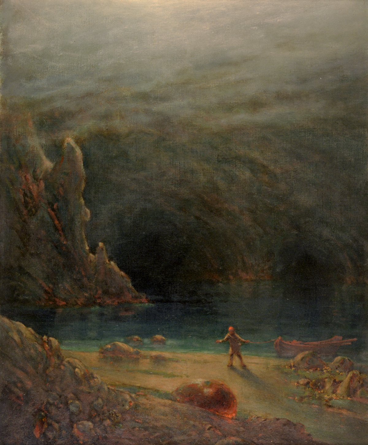 The Great Carbuncle - Painting by William Sidney Goodwin, Oil on canvas, 48.4 x 38.2 cm, Southampton City Art Gallery. Illustrates a scene from Nathaniel Hawthorne's short story "The Great Carbuncle" (1836)